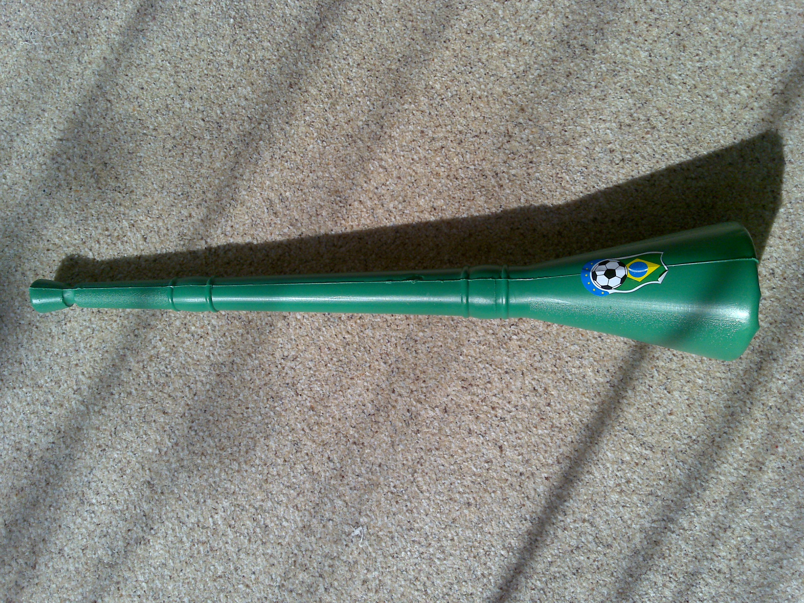 My new vuvuzela, bought on Friday in Rio de Janeiro and ready for use during the Brazil game tomorrow